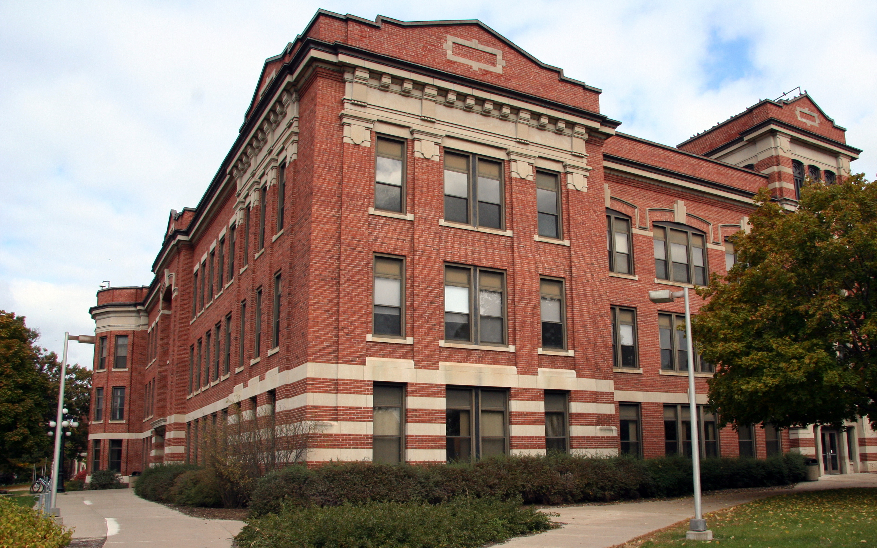 The southwest corner of Maurice O. Graff Main Hall, 1724 State Street, University of Wisconsin–La Crosse